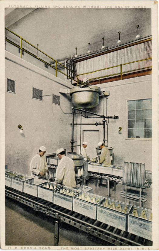 Automatic Filling and Sealing Without the Use of Hands, H.P. Hood & Sons, The Most Sanitary Milk Depot in New England